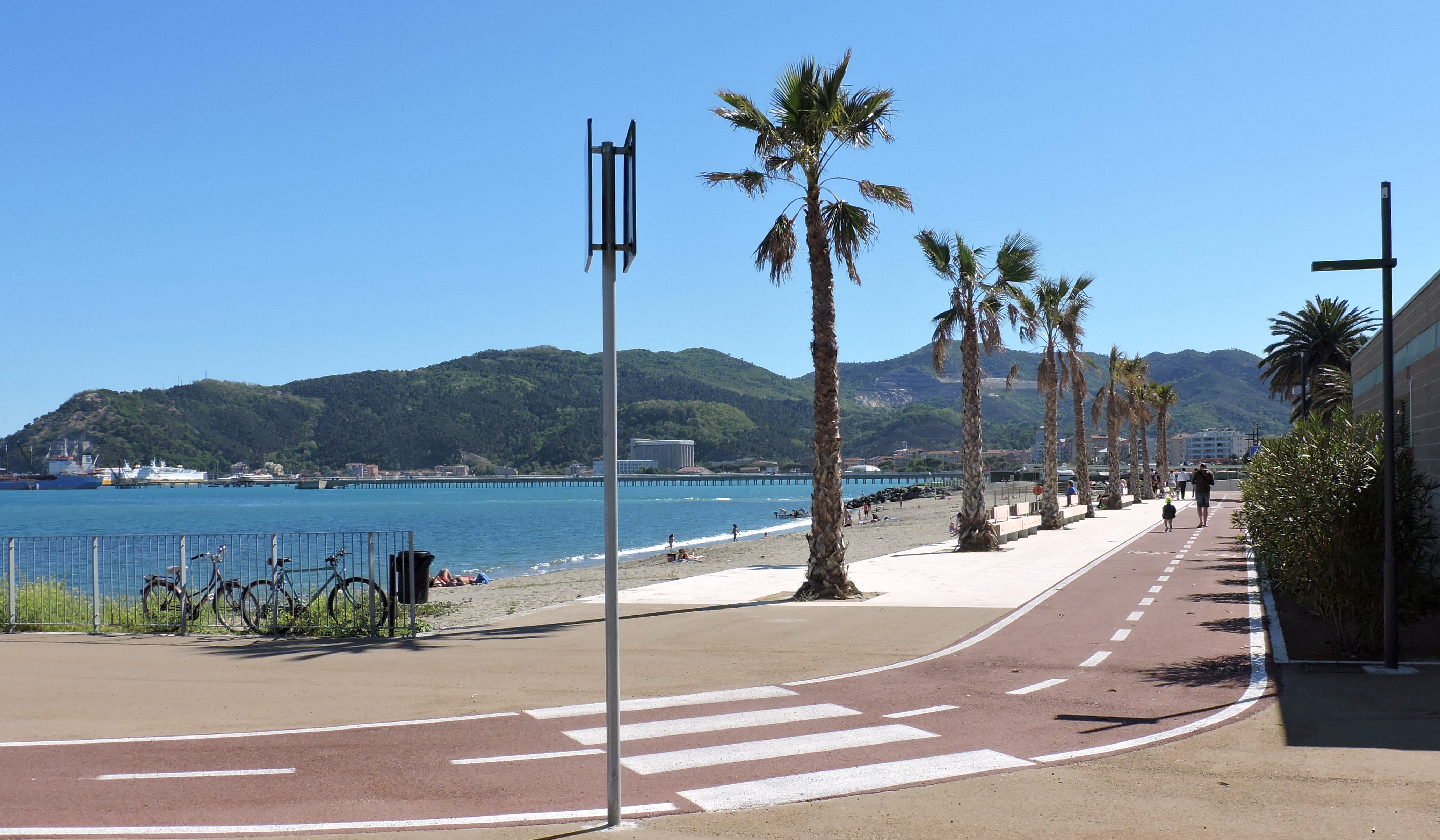 Zinola (Savona, Italy): bikeway